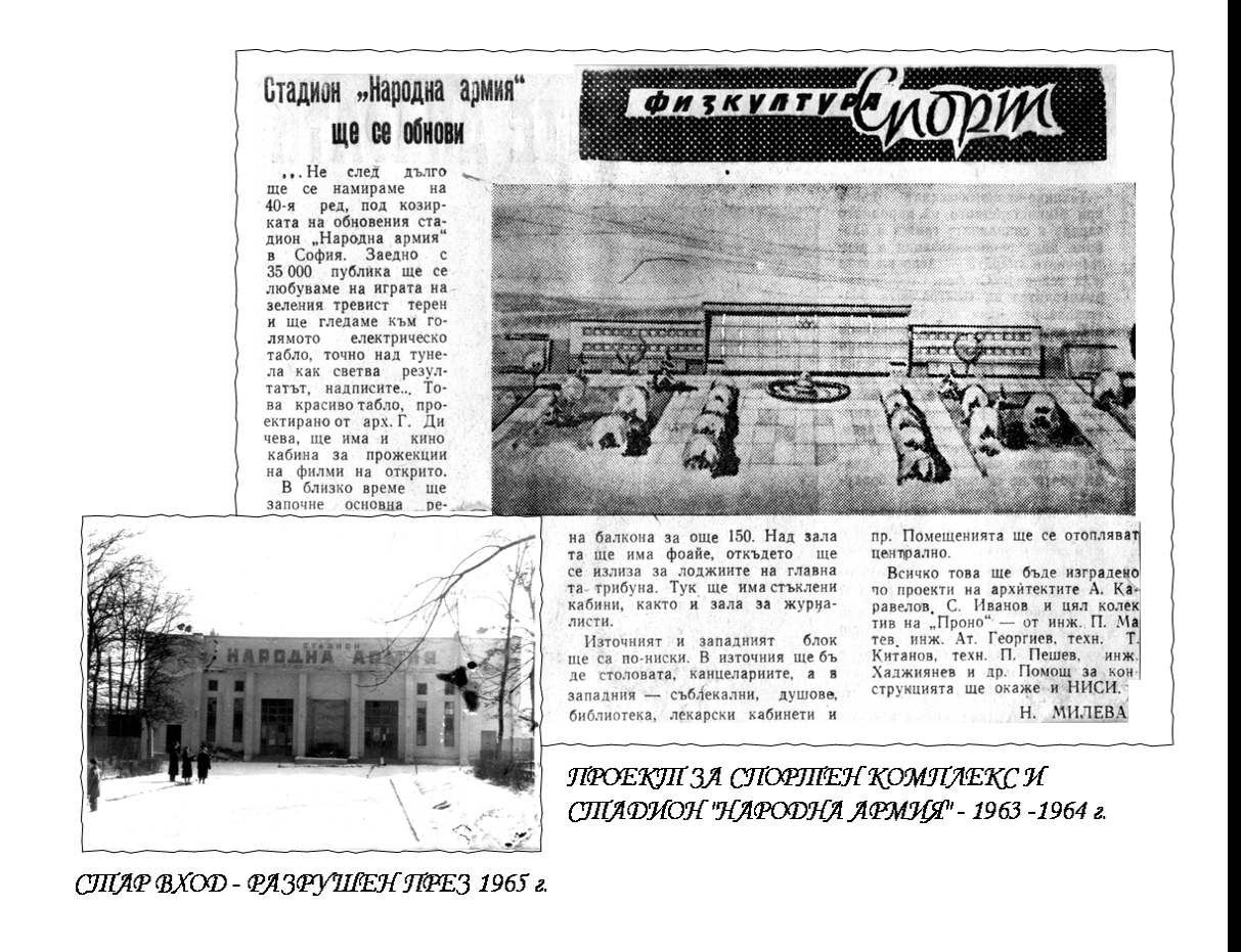 Stadium "Narodna armia" - Sofia - project (design of architect Anton Karavelov)_1963-64